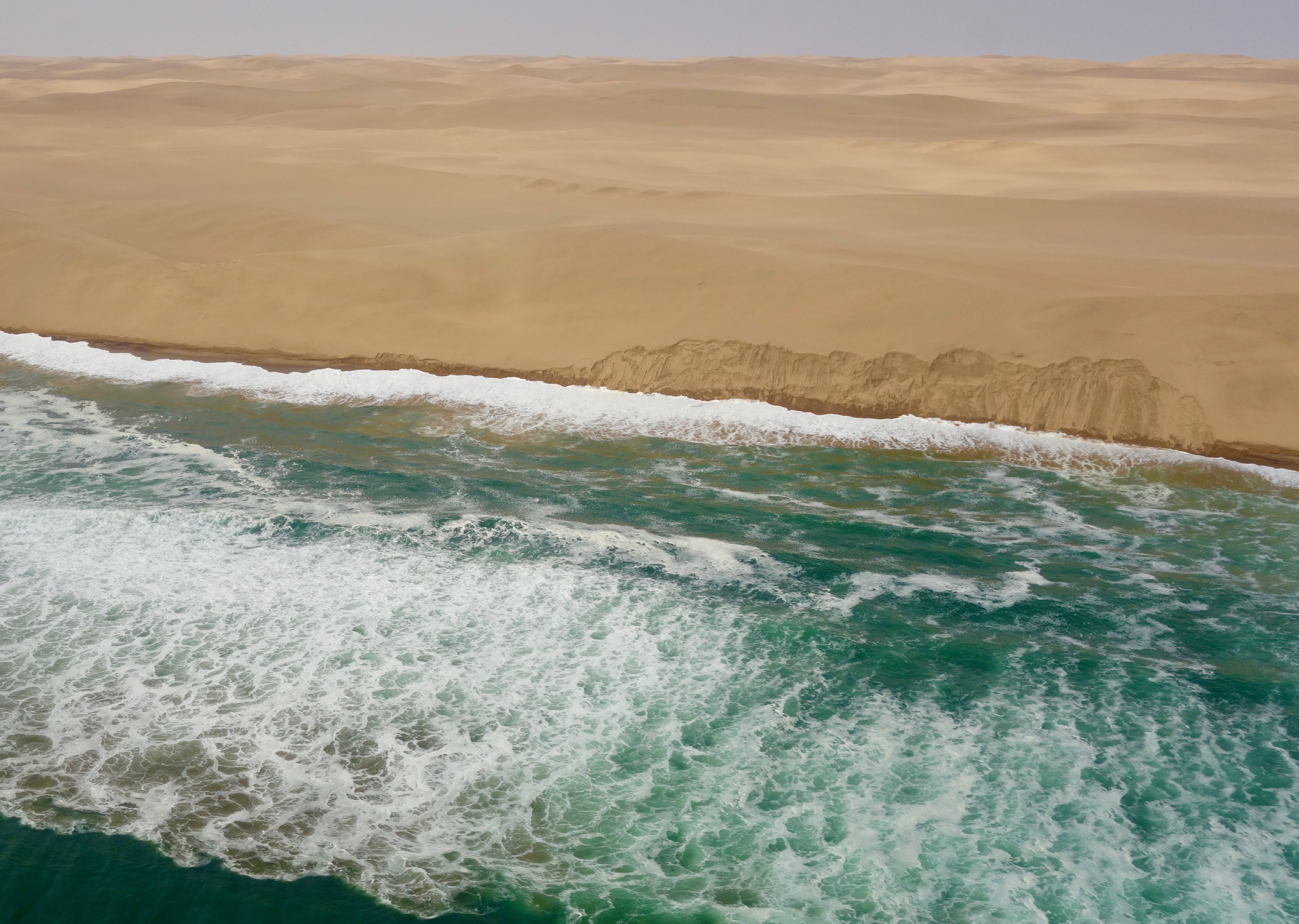 Aerial photography, Namibia